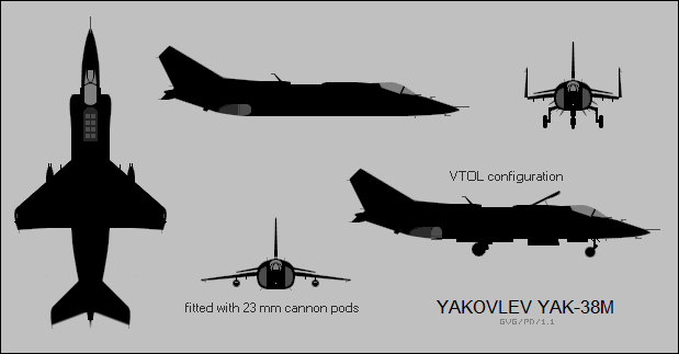 3-view silhouettes of the Yakovlev Yak-38M